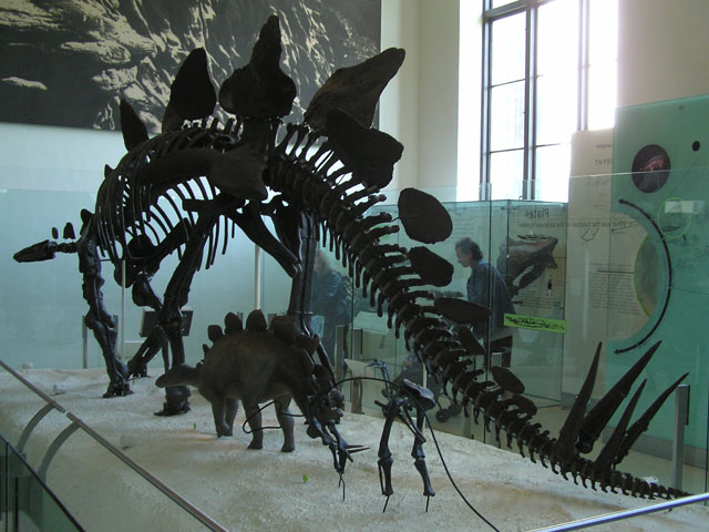 Mounted skeleton of Stegosaurus stenops (specimen AMNH 650) in the American Museum of Natural History, New York.